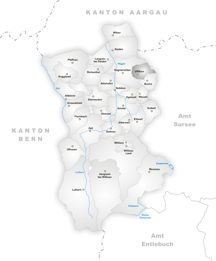 Municipality Uffikon